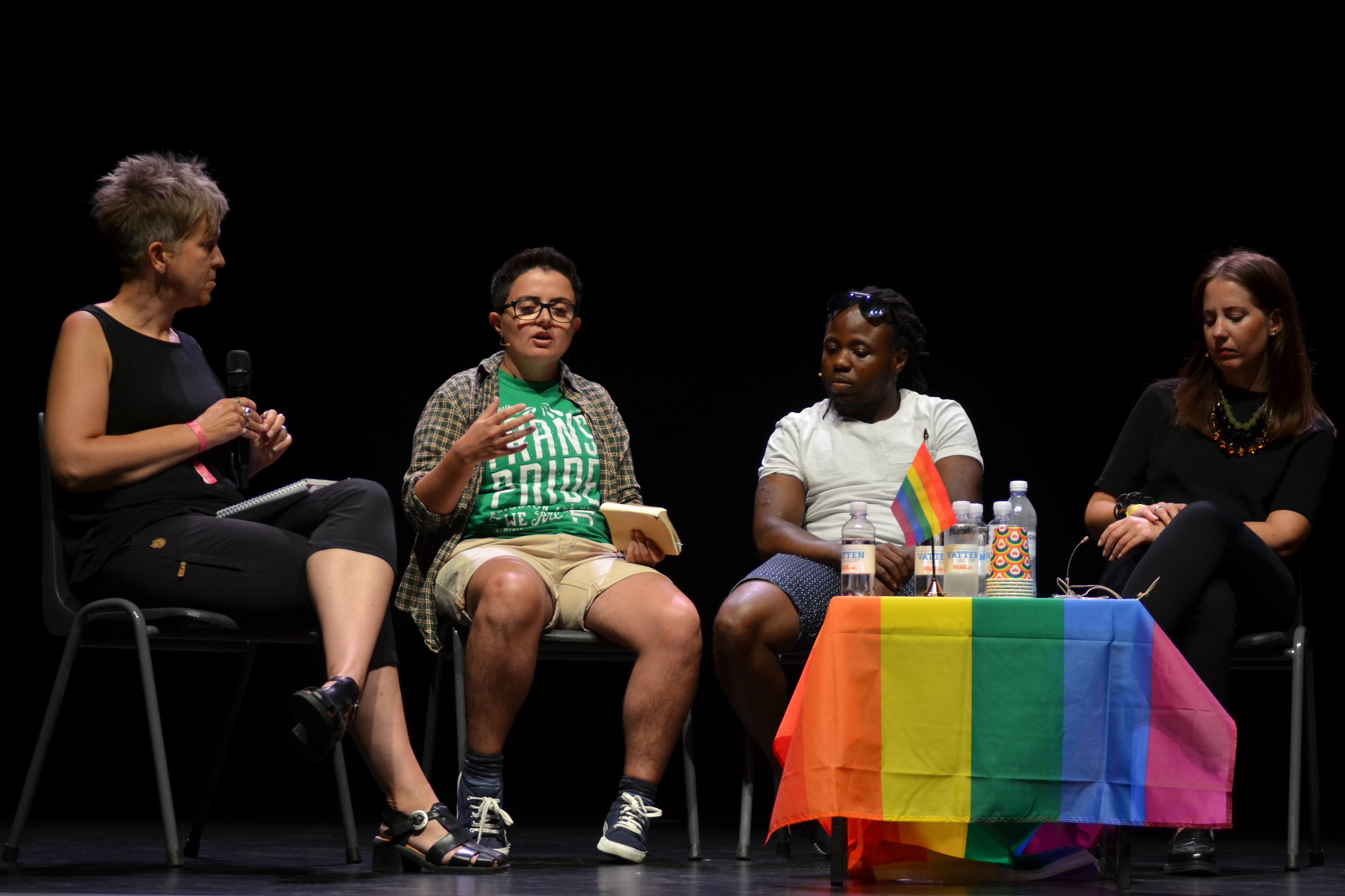 Closing session: Challenges ahead